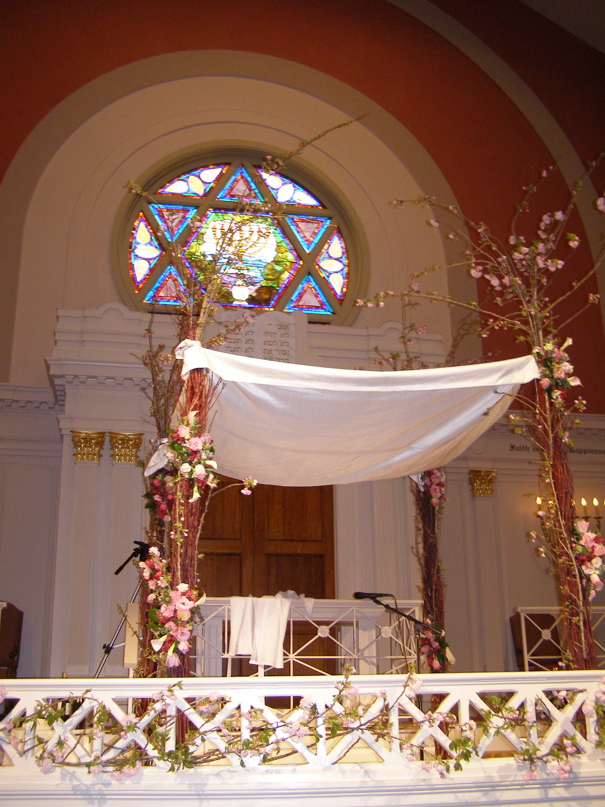 A chupah (the canopy under which a Jewish wedding is performed), at the sixth and I historic synagogue in Washington DC.